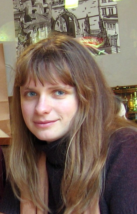 Belarusian poetess and translator Taciana Niadbaj, Praha, 2007 Беларуская (тарашкевіца): Беларуская паэтка і перакладчыца Тацяна Нядбай, Прага 2007